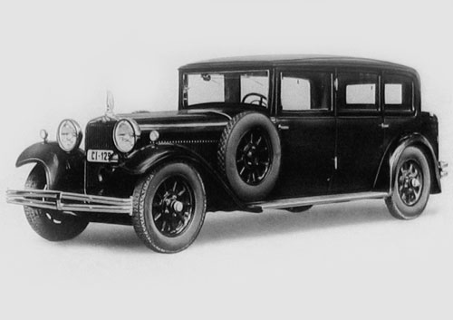 Steyr 25 8 cyl Austria 1929